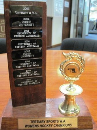 Womens Hockey